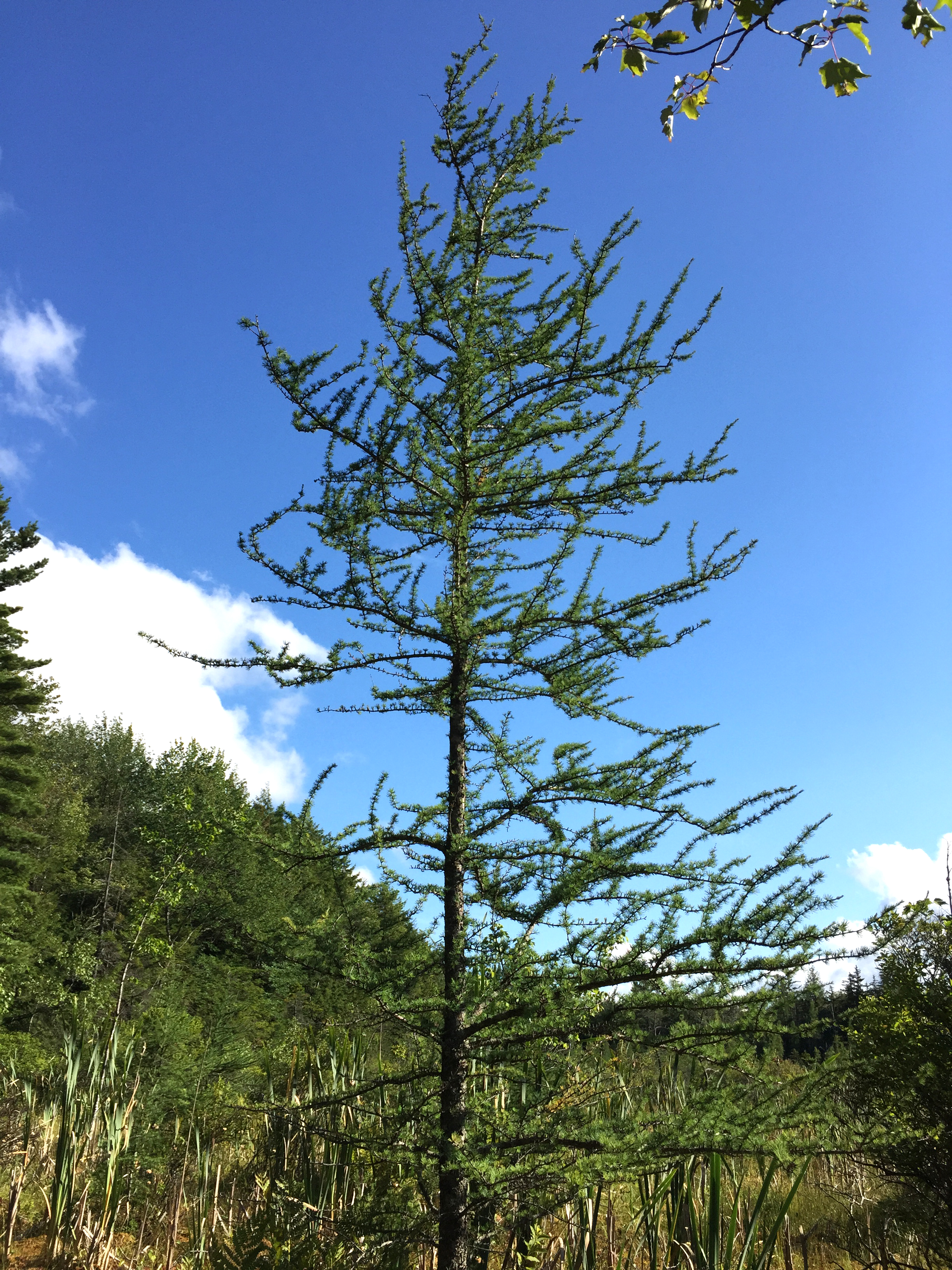 Tamarack in a sphagnum bog adjacent to Taborton Road (Rensselaer County Route 42) in Sand Lake, New York